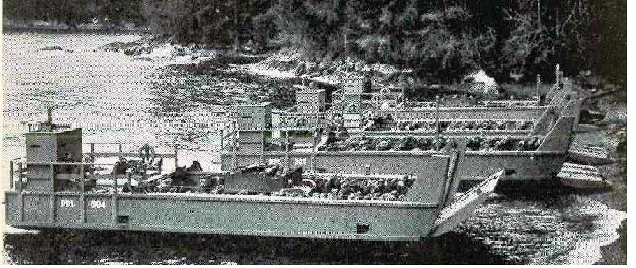 This is a historic photo of a Ramped Cargo Lighter.